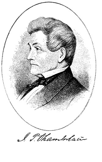 Jacob P. Chamberlain, Congressman from New York